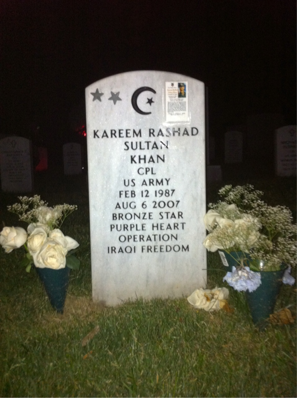 Grave of Kareem Rashad Sultan Khan at Arlington National Cemetery